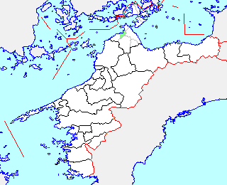 Map of Ōnishi, Ehime, Japan.